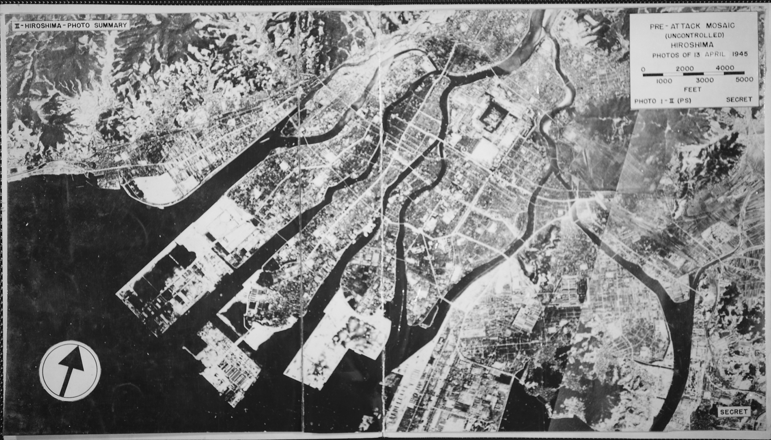 Hiroshima before A-bomb attack (mosaic view) for the US strategic Bombing Survey, an Army-Navy joint intelligence research project.